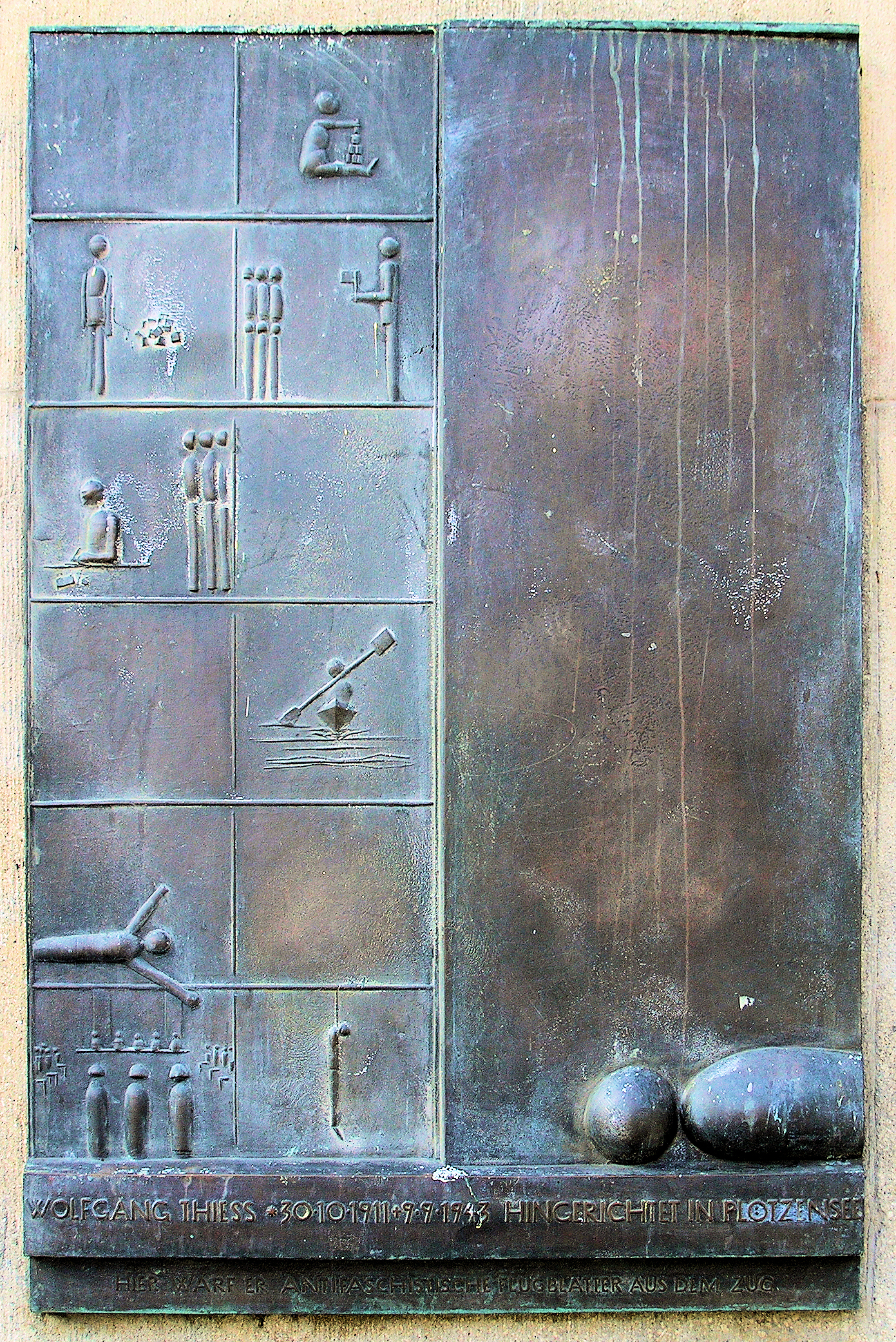 Memorial plaque, Wolfgang Thiess, Hallesche-Tor-Brücke , Berlin-Kreuzberg, Germany Koordinate:52°29′52″N 13°23′29″E / 52.49778°N 13.39139°E